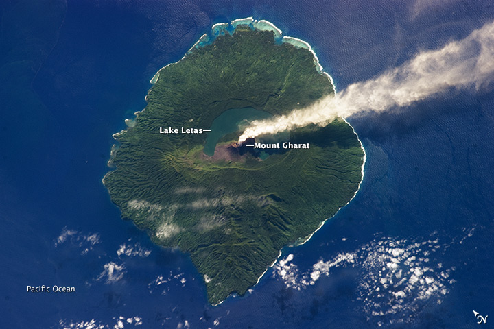 Gaua